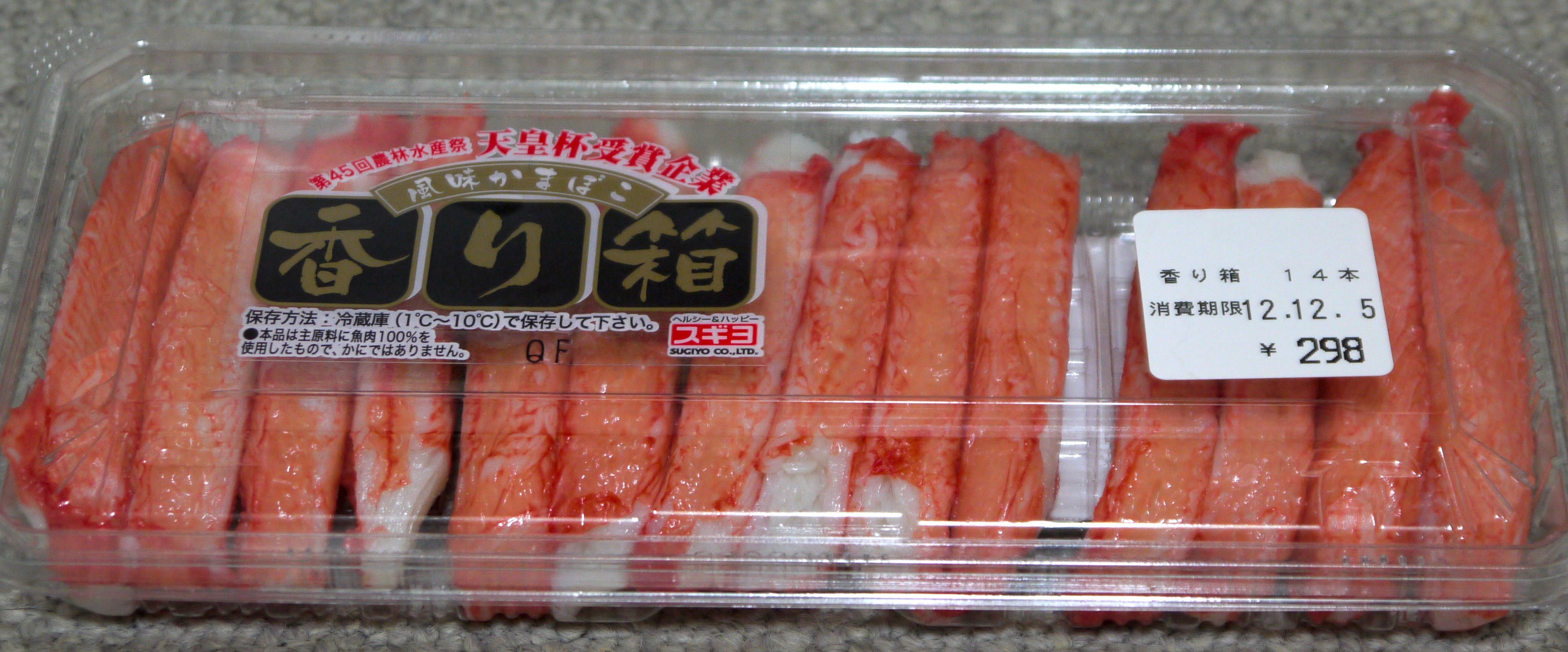 Sugiyo "Kaori Bako" imitation crab meat.